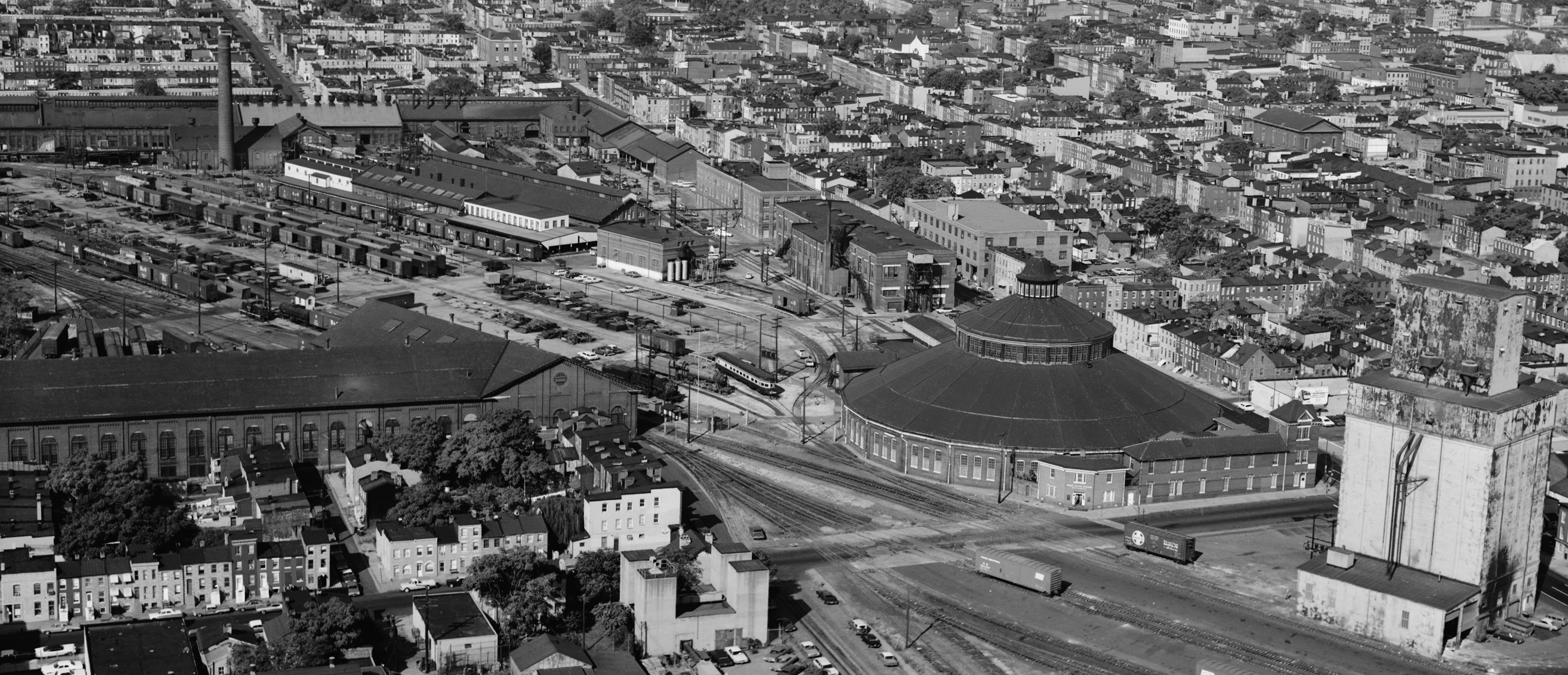 Aerial view of Mount Clare Shops, Baltimore and Ohio Railroad, Baltimore, Maryland, USA. Mount Clare is the oldest railroad manufacturing complex in the United States.